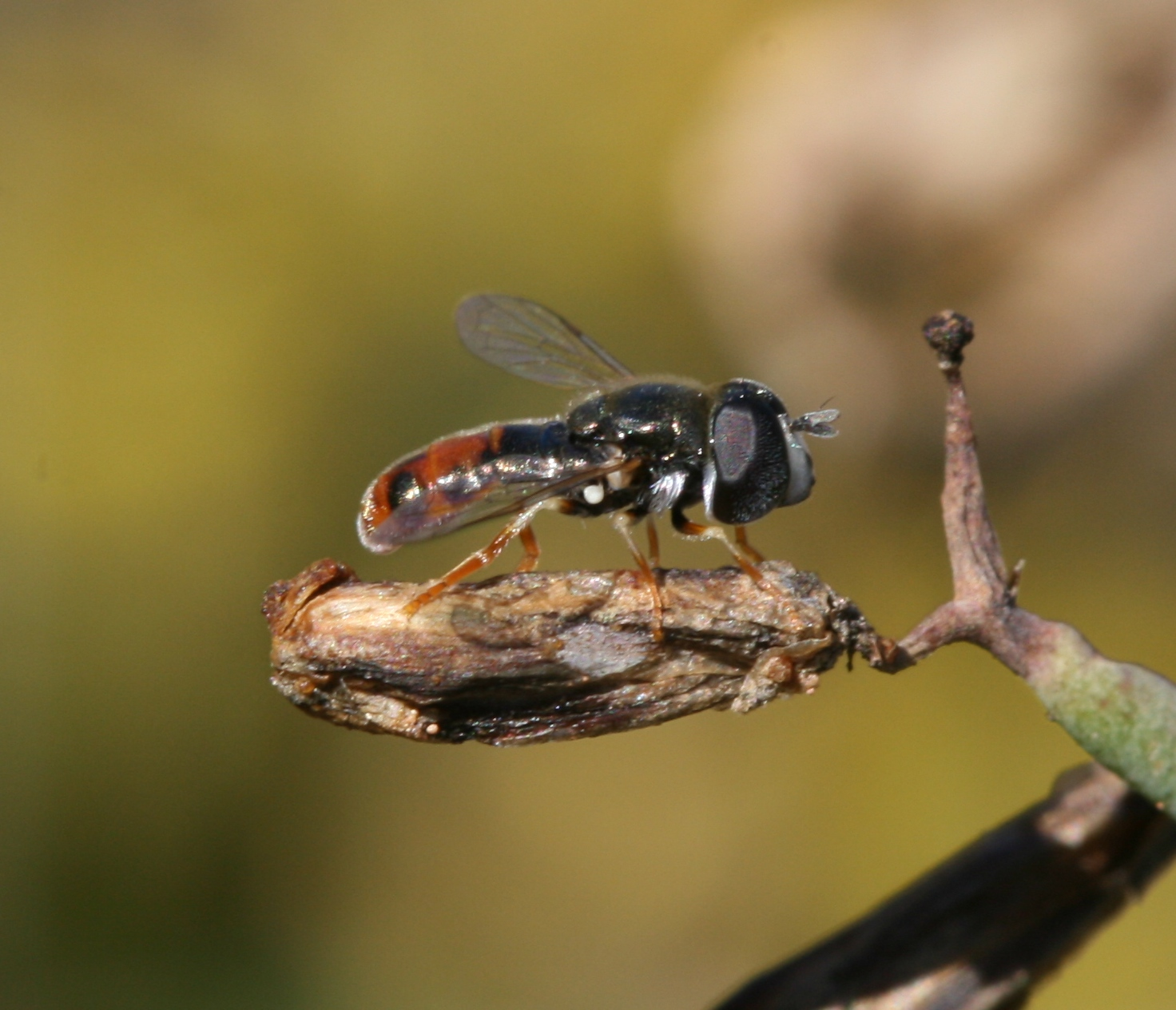 Photographed Playa Blanca, Lanzarote, Spain. Difficult genus to identify to species without microscopic study of male genitalia. On Lanzarote though only P. tibialis present as far as is known.